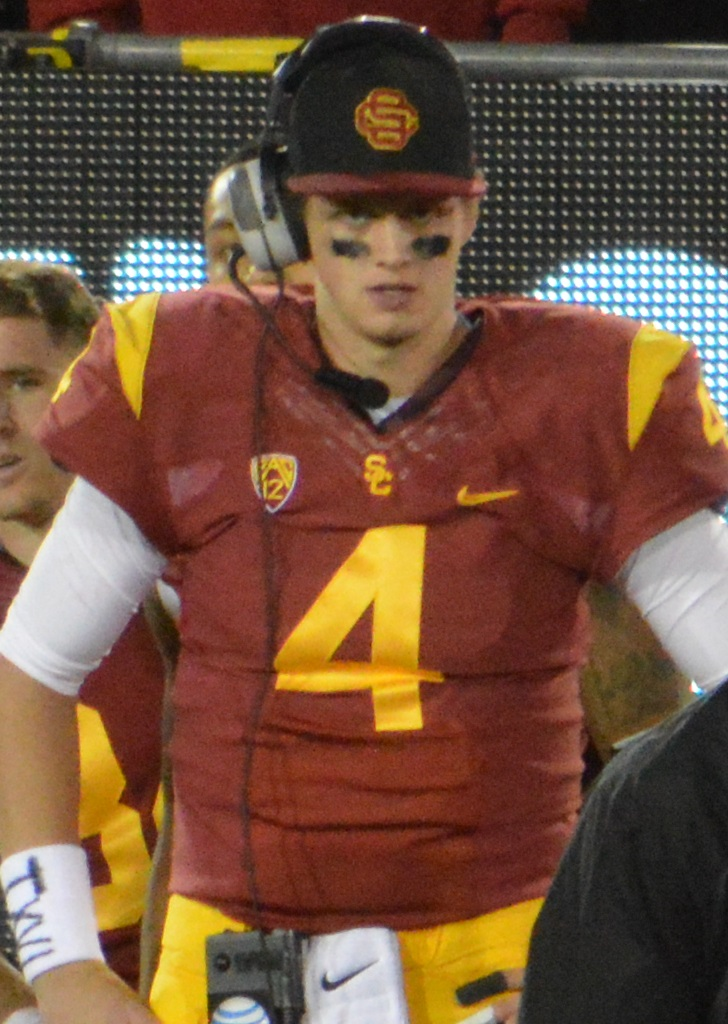 USC backup quarterback Max Browne on the sidelines during the 2013 game against Stanford.